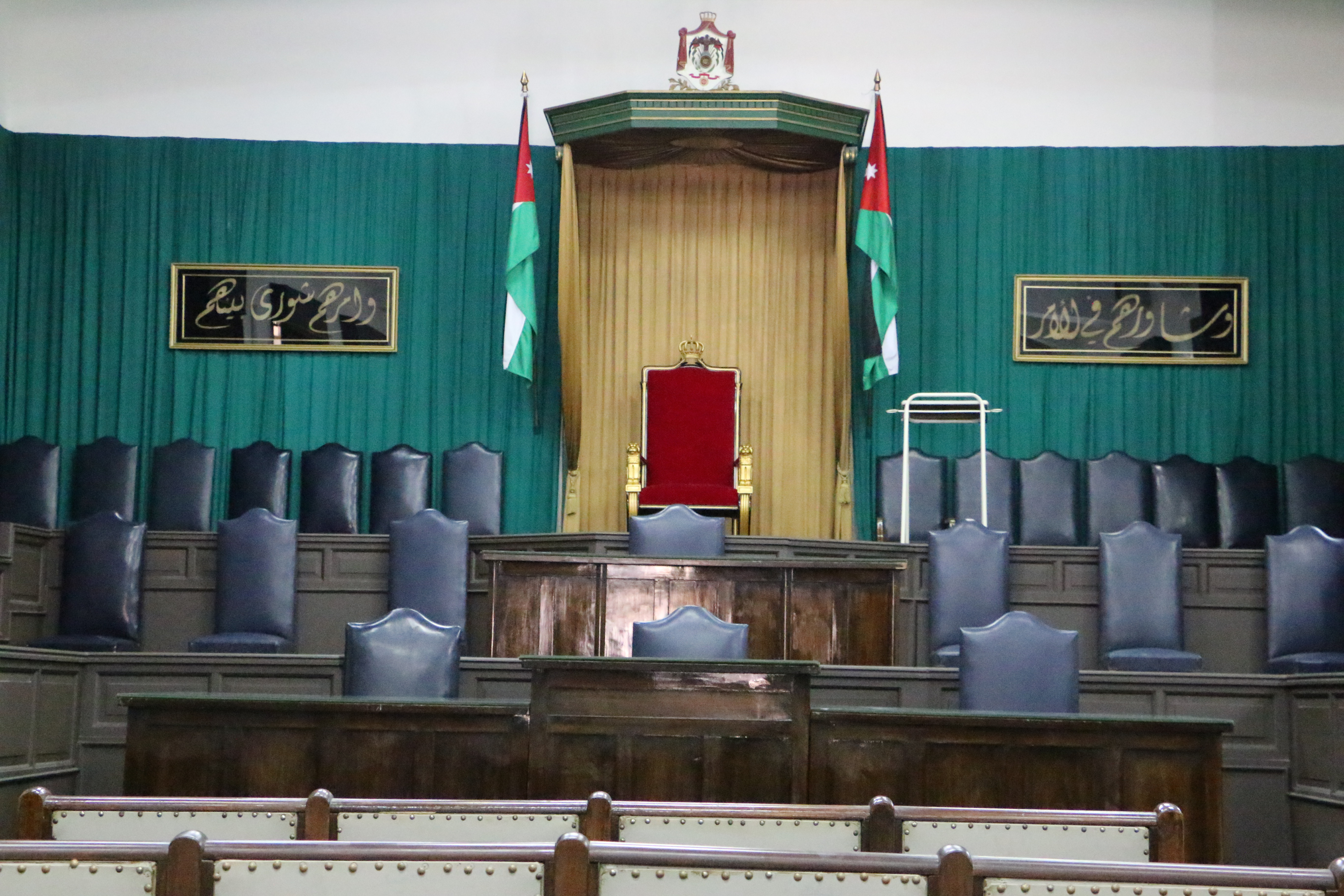 parliament Hall in the parliamentary life musume